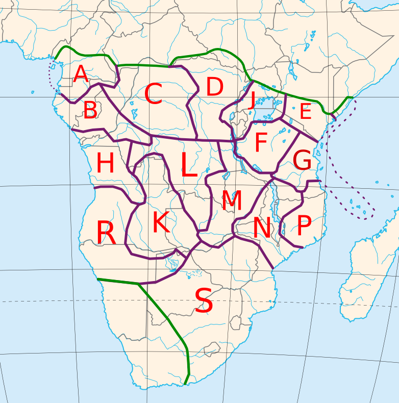 Guthrie's Bantu zones (mostly geographically based; S is likely genealogical) (with Tervuren's zone J)